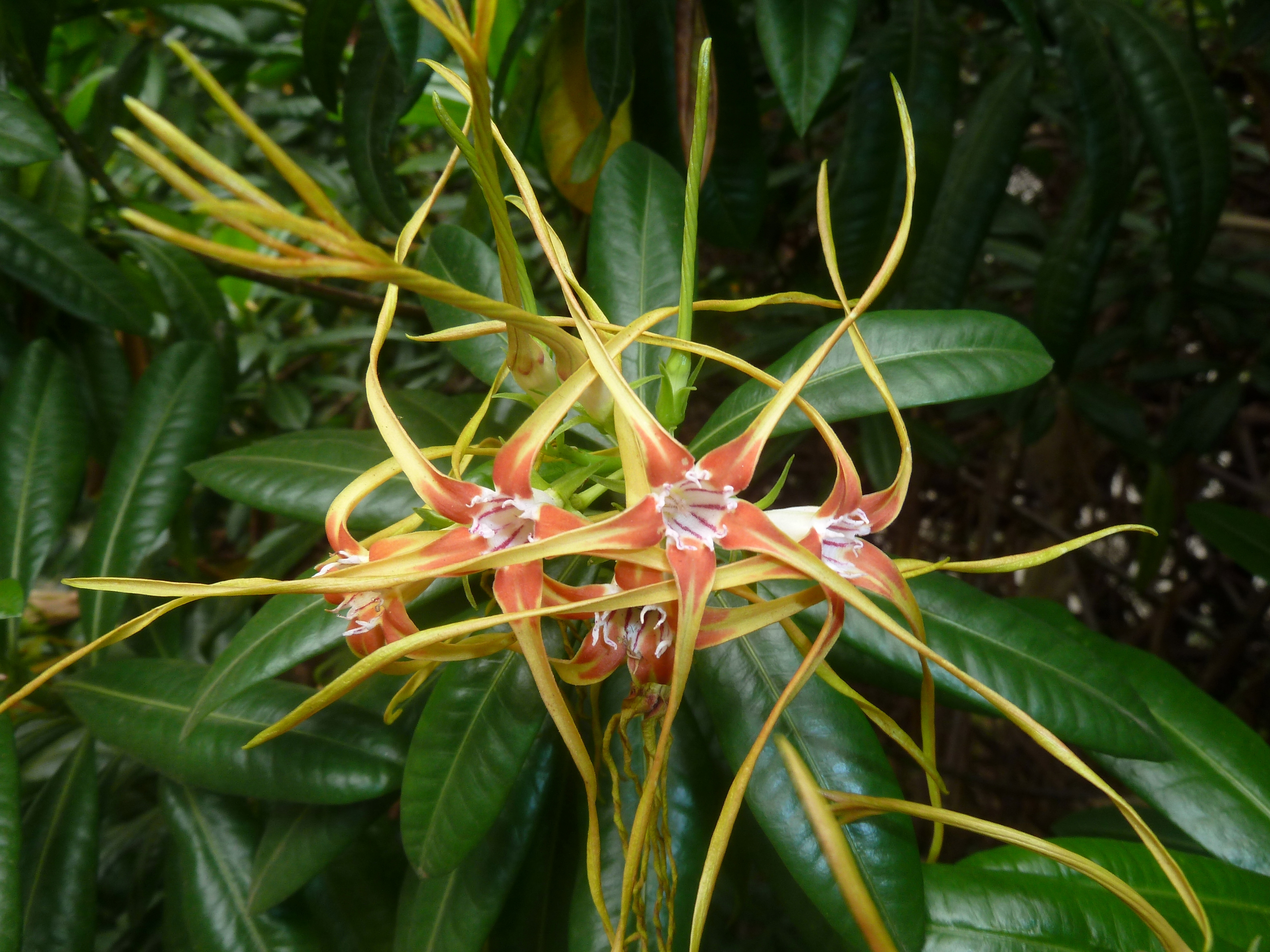 Flowers of a Forest poison rope in the Manie van der Schijff Botanical Garden, Pretoria